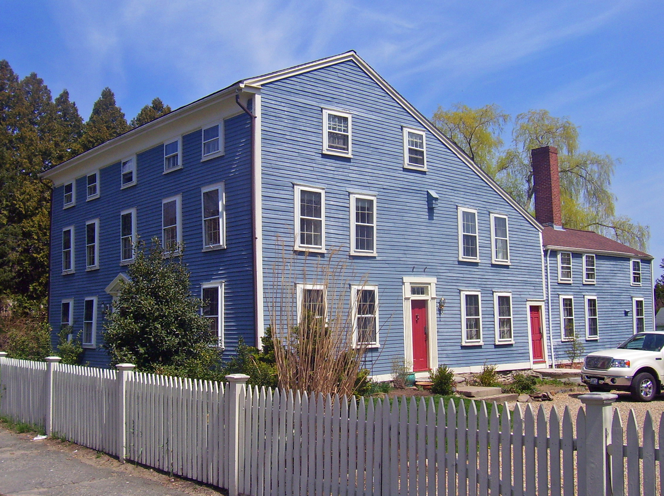 Joseph Reynolds House in Bristol, RI, USA, used as Lafayette's headquarters in area during Revolutionary War